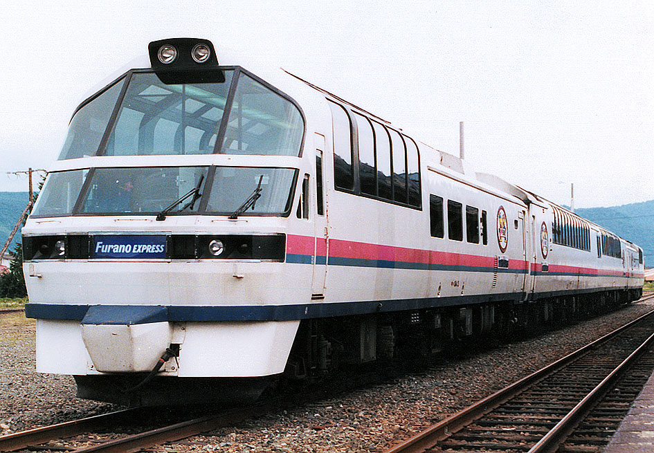 JR Hokkaido KiHa 80 series "Furano Express" DMU